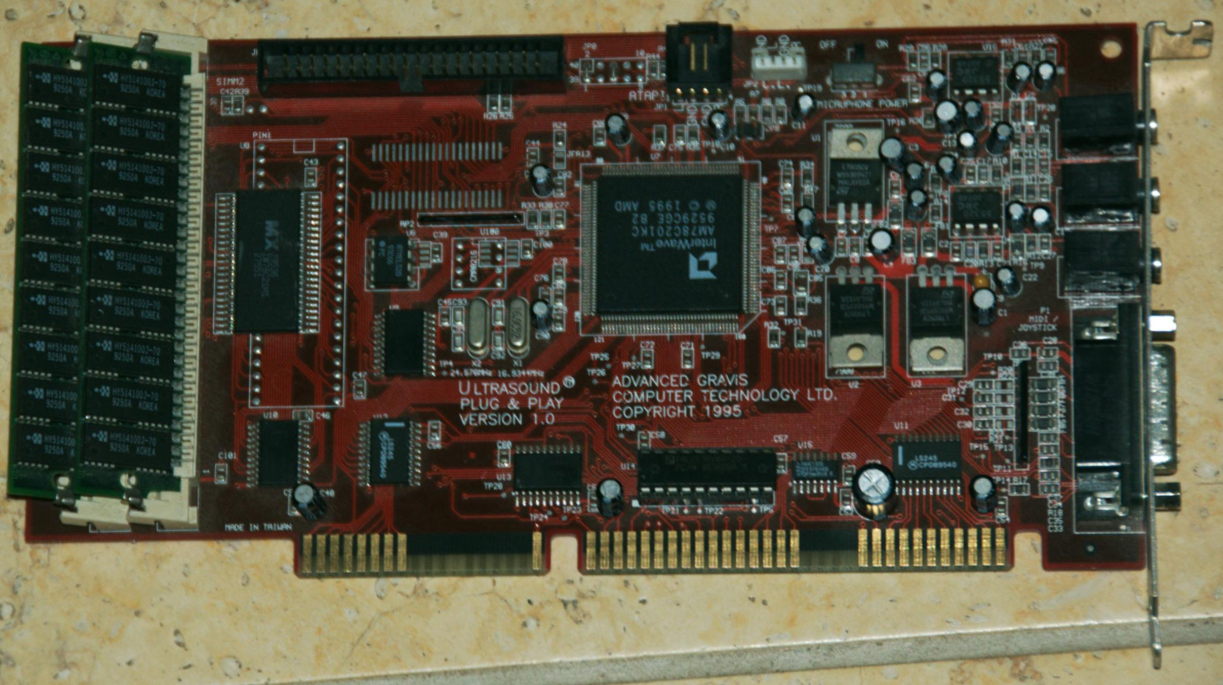 A closeup of the famous sound card Gravis Ultrasound Plug & Play